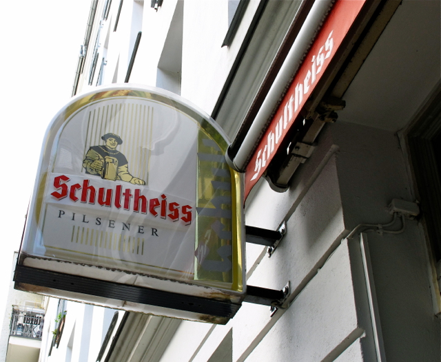 Sign of the Berlin Beer Schultheiss in Prenzlauer Berg.